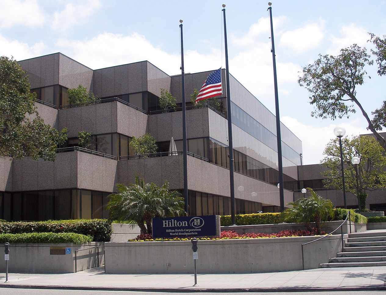 The headquarters of Hilton Hotels Corporation in Beverly Hills. Photographed on April 21, 2007 by user Coolcaesar.